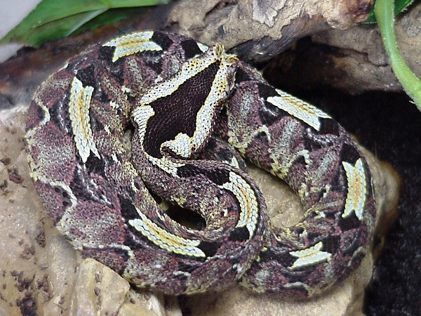 Bitis nasicornis juvenile.